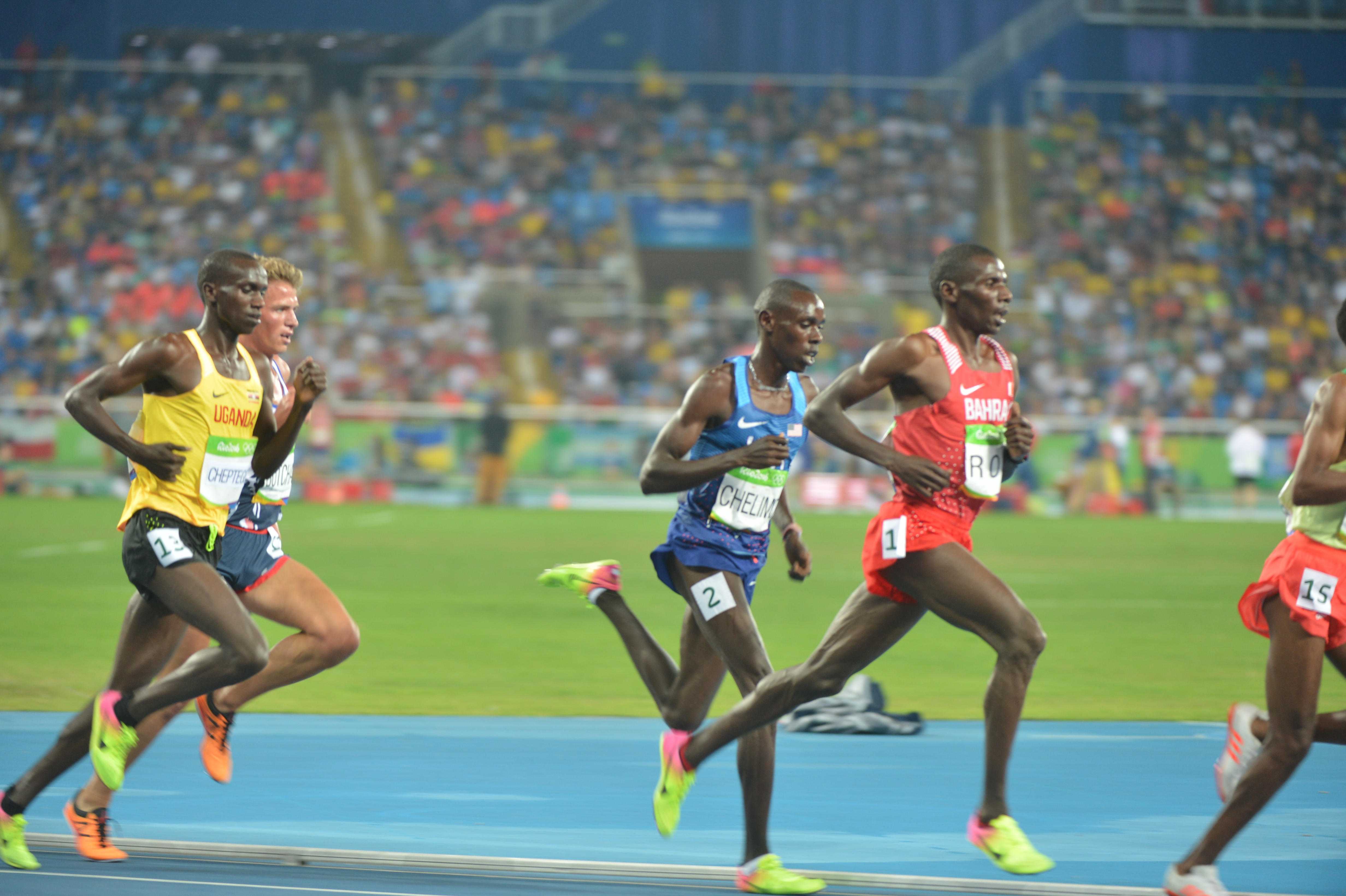 Spc. Paul Chelimo of the U.S. Army World Class Athlete Program finishes runner-up to Mo Farah of Great Britian to claim the silver medal in the men's 5,000-meter run with a personal-best time of 13 minutes, 3.90 seconds at the Rio Olympic Games in Rio de Janeiro. Farah won the gold in 13:03.30 and Hagos Gebrhiwet of Ethiopia took the bronze in 13:04.35. Chelimo was disqualified from the race but later reinstated and collected his silver medal at the awards ceremony, which was delayed to sort it out. U.S. Army photo by Tim Hipps, IMCOM Public Affairs #SoldierOlympians #ArmyOlympians #ArmyTeam #GoArmy #TeamUSA #RoadToRio #Olympics #ArmyStrong